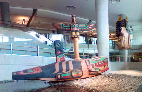 Northwest Coast Killerwhale and Thunderbird by Richard Hunt. Artesania Aborigen canadiense en el Aeropuerto Internacional de Vancouver International Airport.